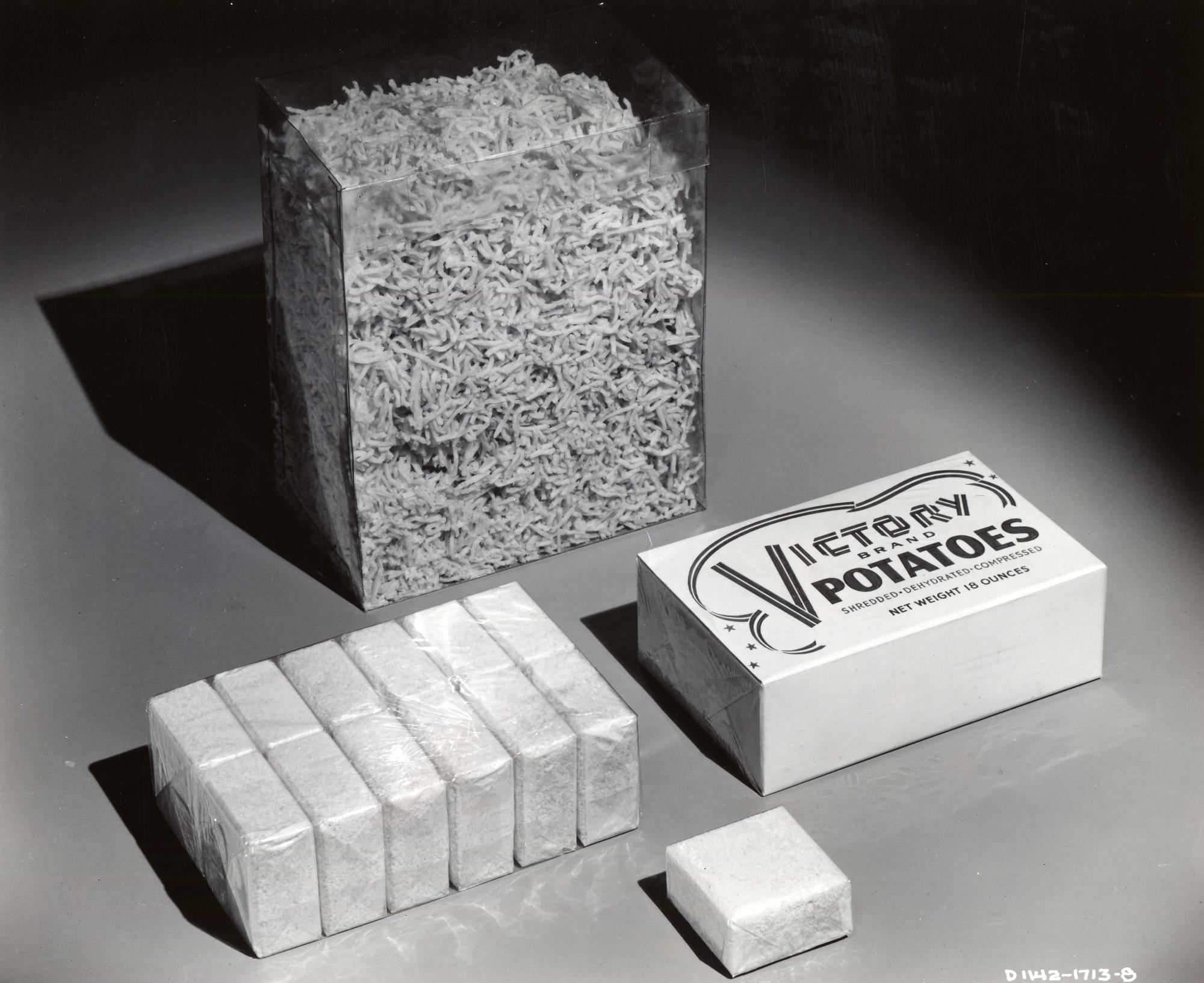 Image Title: Dehydrated shredded potatoes Circa 1940. Original Collection: Food Science and Technology Dept. Photographic Collection Item Number: P142:389 Restrictions: Please contact the OSU Archives for permissions forms or information on how to cite our collections. Click here to view our digital collections. You can find this image by searching for the item number. Click here to view Oregon State University's other digital collections. We're happy for you to share this digital image within the spirit of The Commons; however, certain restrictions on high quality reproductions of the original physical version may apply. To read more about what "no known restrictions" means, please visit the OSU Archives website.